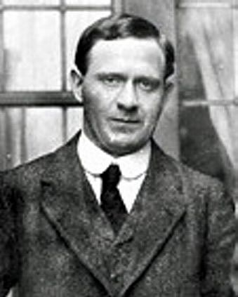 Taken from postcard promoting Louis Bernacchi's candidature in the 1910 General Election at Widnes. Courtesy Catalyst Science Discovery Centre, Widnes.